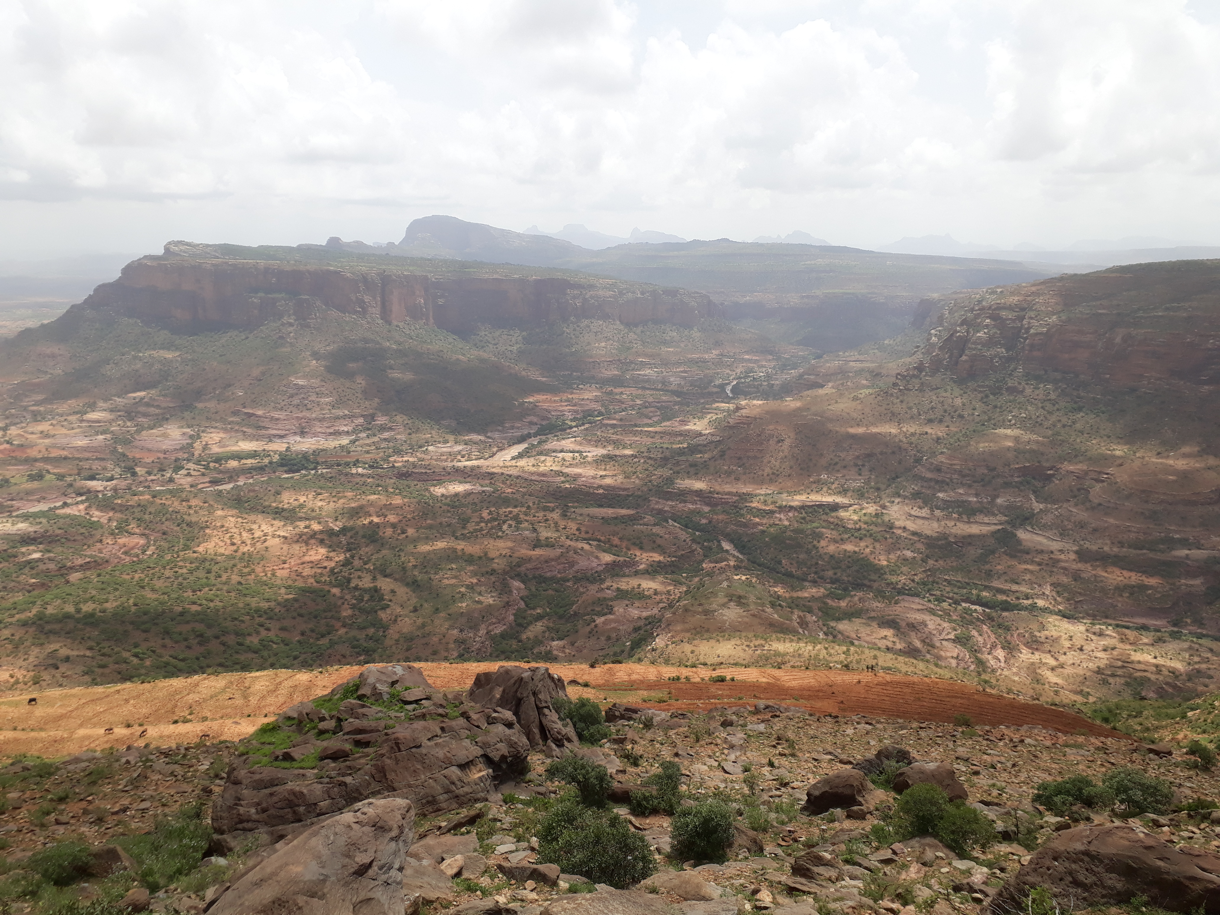 Agefet gorge